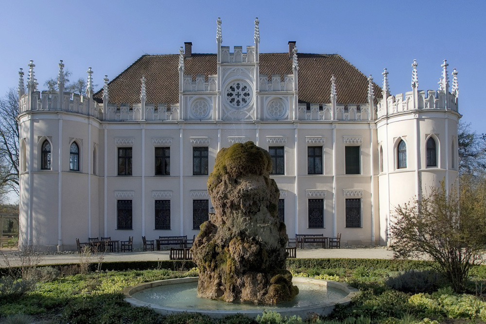 Schloss Reichenschwand, heute